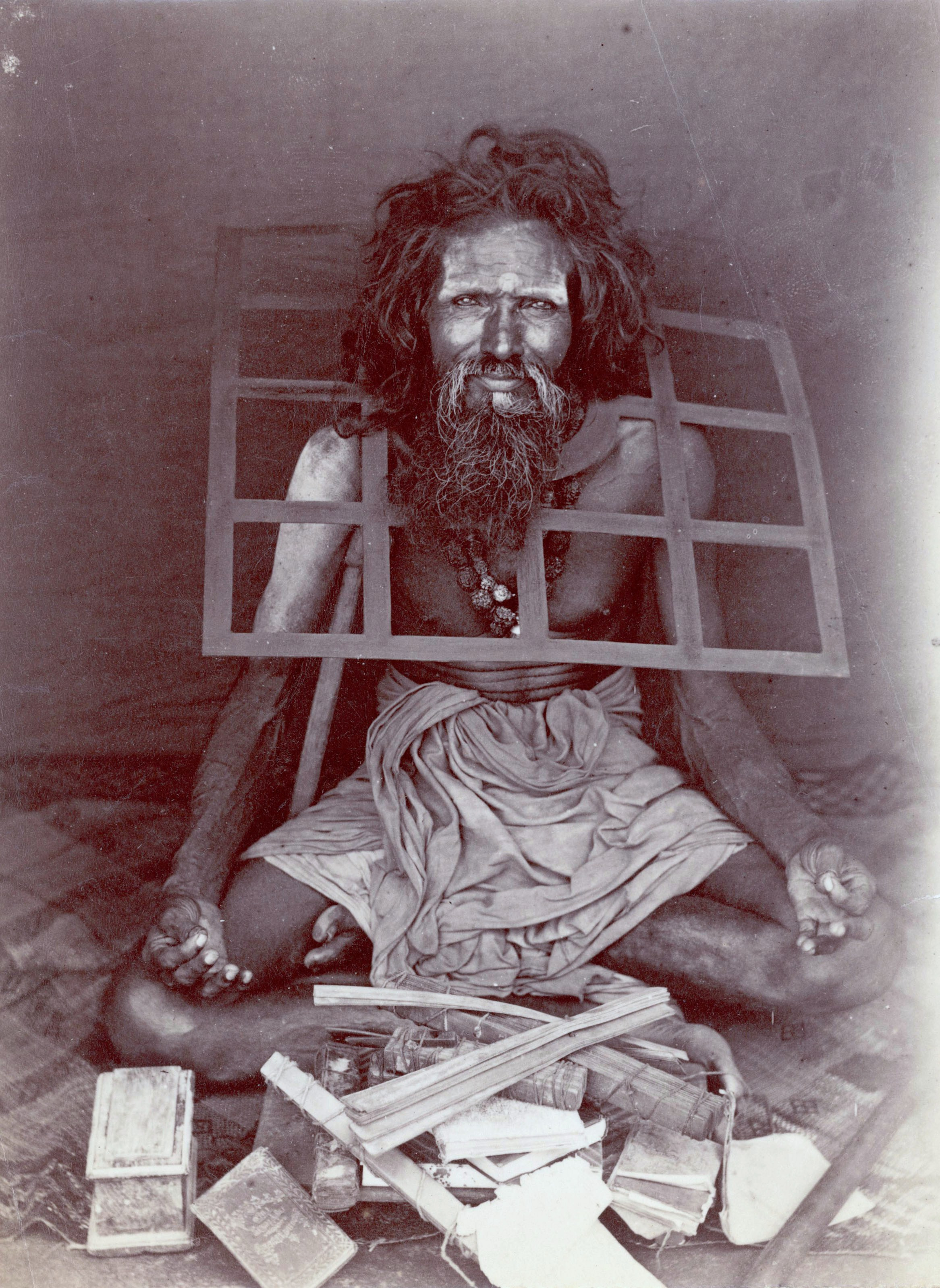 An Indian ascetic wearing an iron collar, circa 1870. (Photo by Hulton Archive/Getty Images)